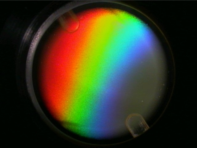 This is one of the first images from the Physics of Colloids in Space (PCS) on the ISS. During Expedition Two, sample AB6 was illuminated with white light to produce the image. The colored regions result from refraction of the white light by the sample and sample cell, splitting it up into its component colors. Credit: NASA